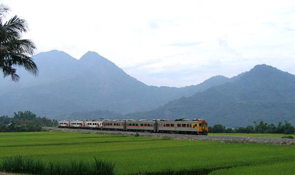 Taiwan Railway Administration Dodo train.